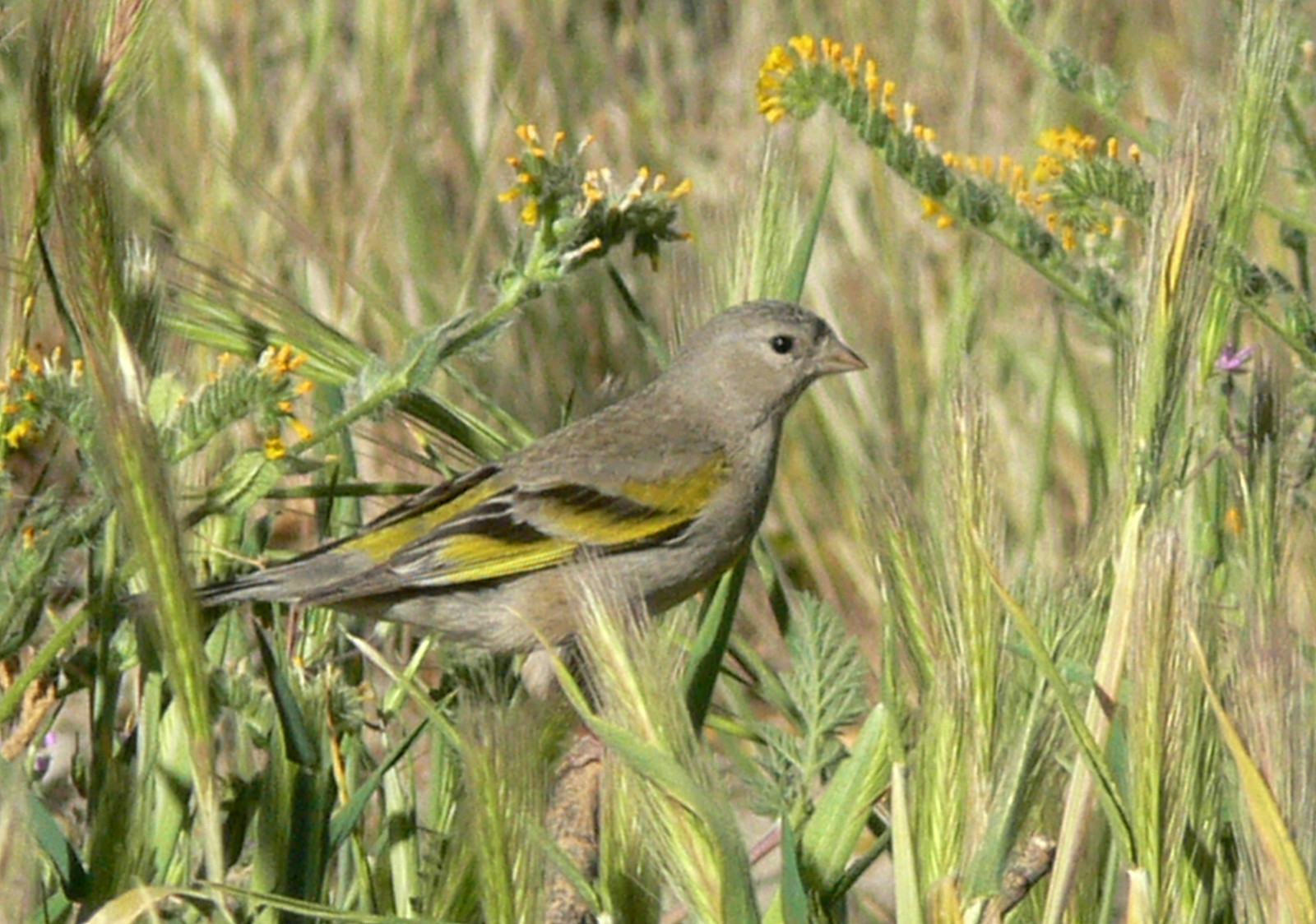 Carduelis lawrencei Lawrence's Goldfinch - Female. Chimineas Ranch, San Luis Obisbo, California.